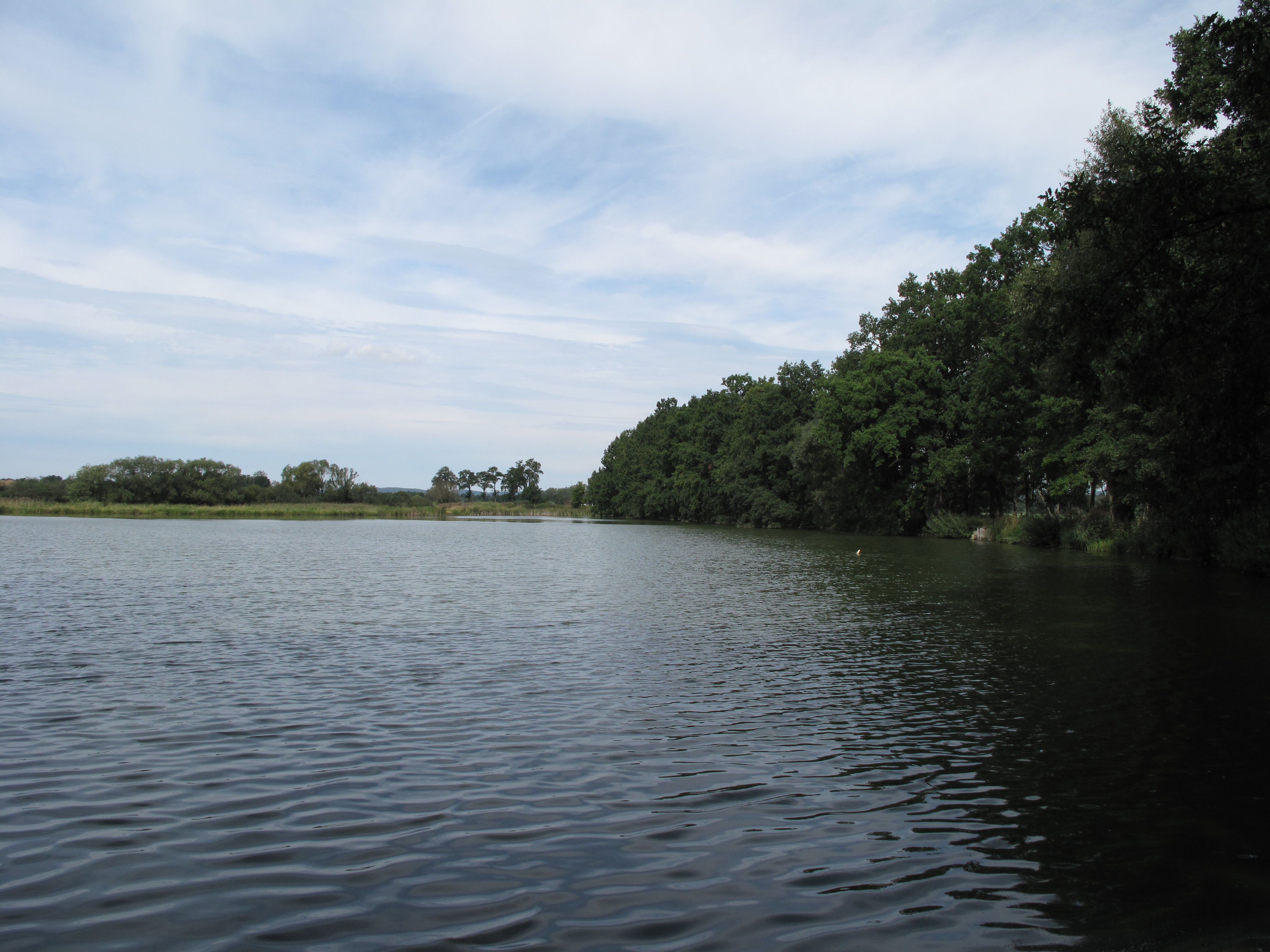 Miska pond, Písek District, Czech Republic.